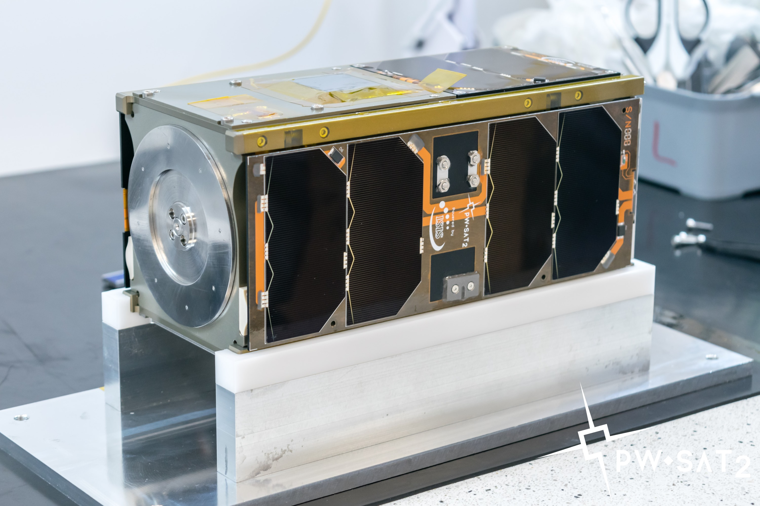 Fully integrated PW-Sat2 student satellite build by Students Space Association